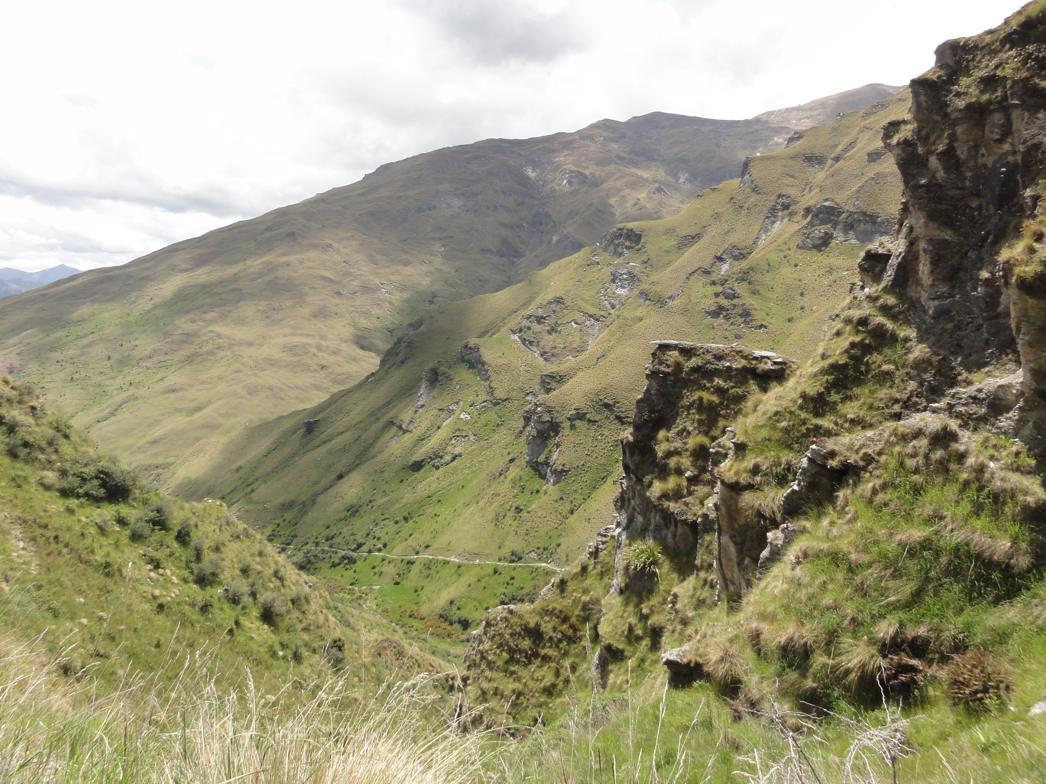 Skippers Canyon near Hell and Heaven Gates, Queenstown New Zealand